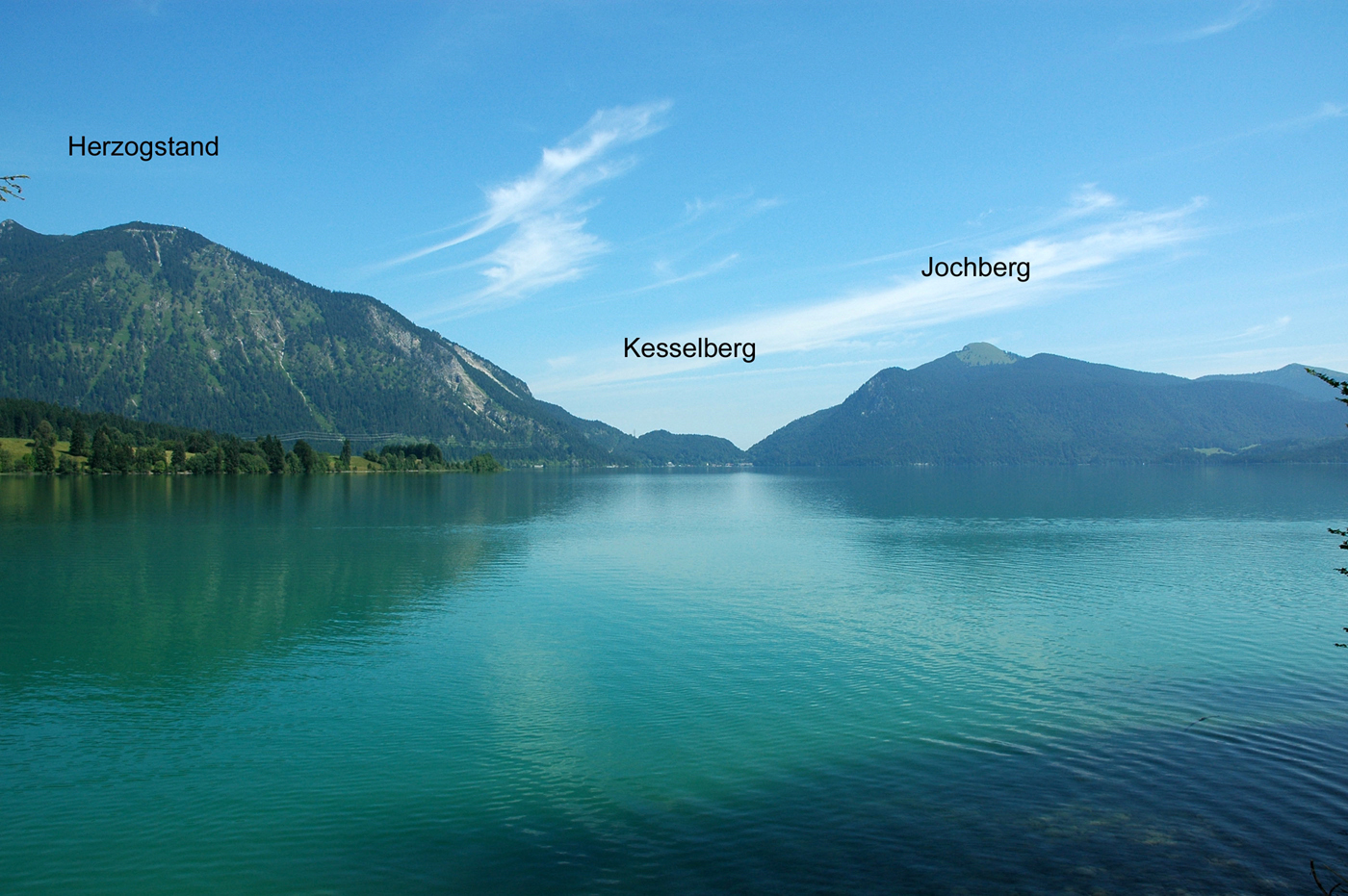 View on the mountains near Lake Walchensee